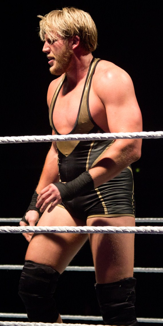 Jack Swagger during a WWE house show on February 2, 2013 in Montgomery, Alabama.